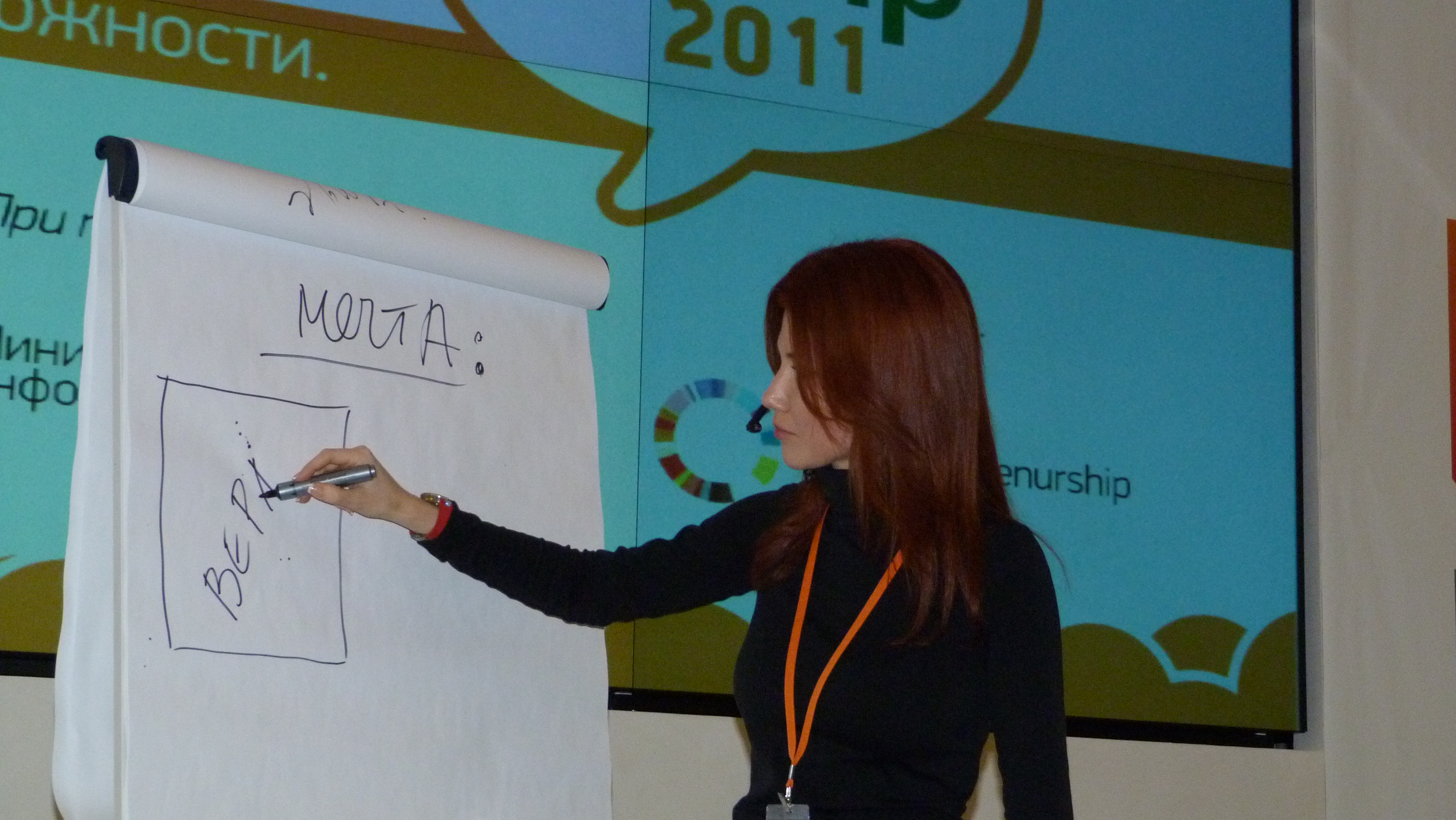 Anna Chapman 2011 at the iCamp conference in Kazan (Tatarstan, Russia)